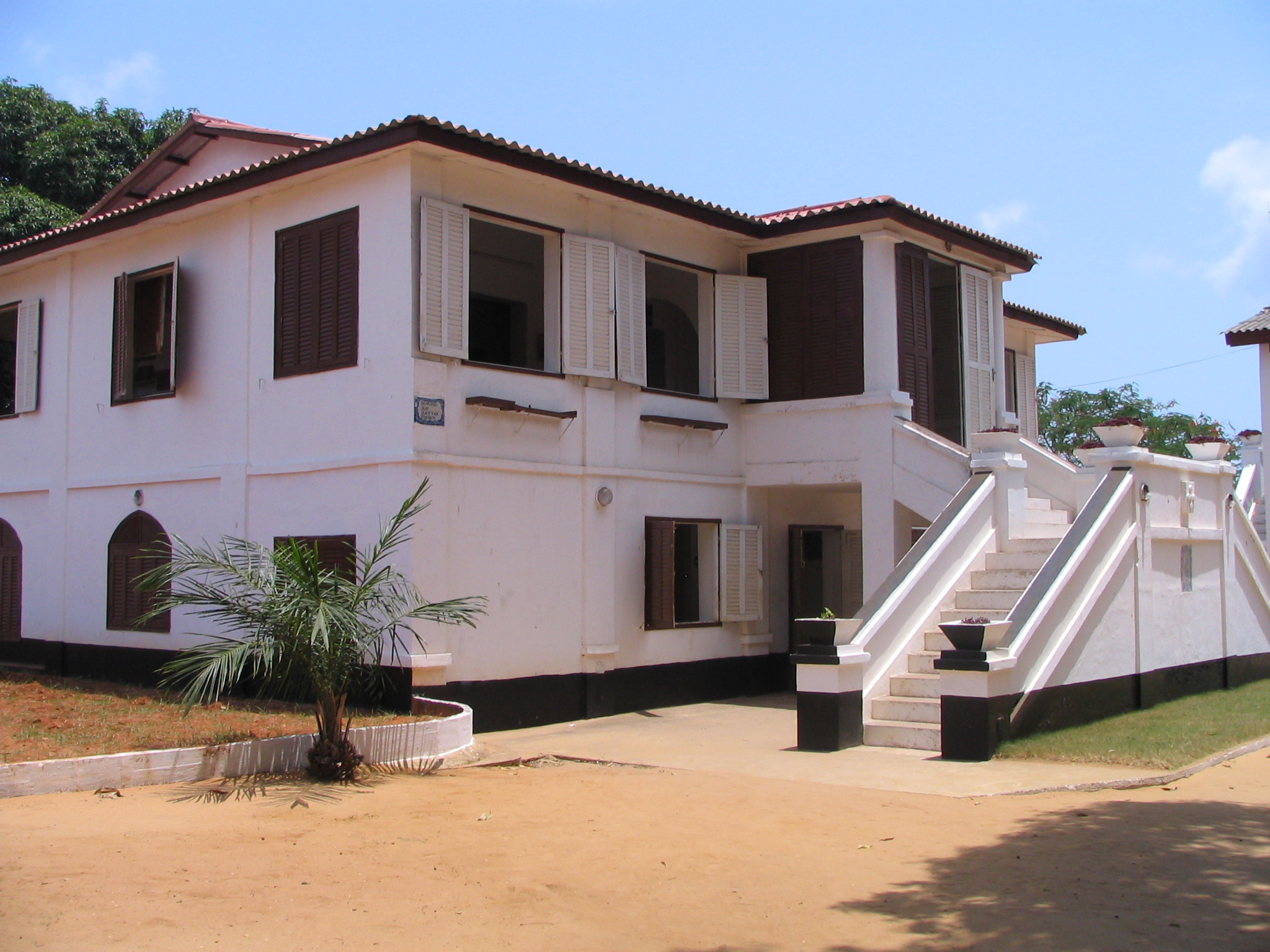 History museum of Ouidah built on the location of the old Portuguese fortress of São João Baptista de Ajudá, built in 1721.